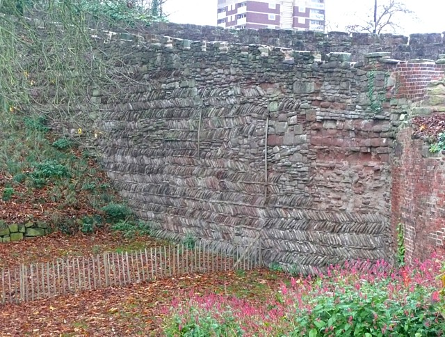 'Herringbone' walling, Tamworth Castle Nikolaus Pevsner (The Buildings of England - Staffordshire) states that this walling is of the late 11C, i.e. soon after the Norman Conquest.